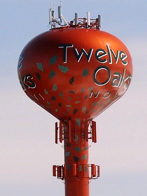 Twelve Oaks Mall, Water tower, Novi